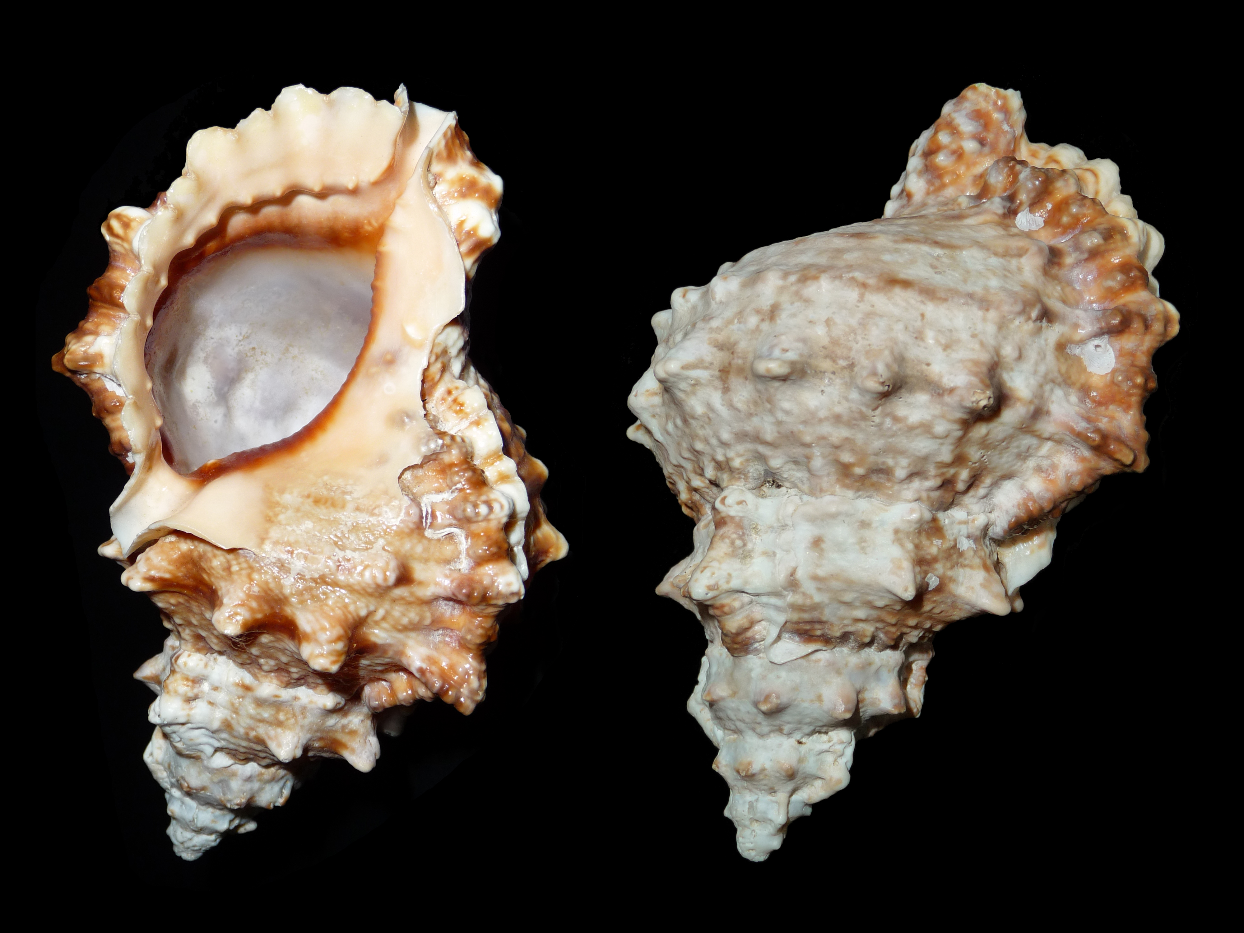 Red-ringed Frog Shell, Red-mouth Frog Shell. Seashell from my personal collection. Shell length 101 mm.